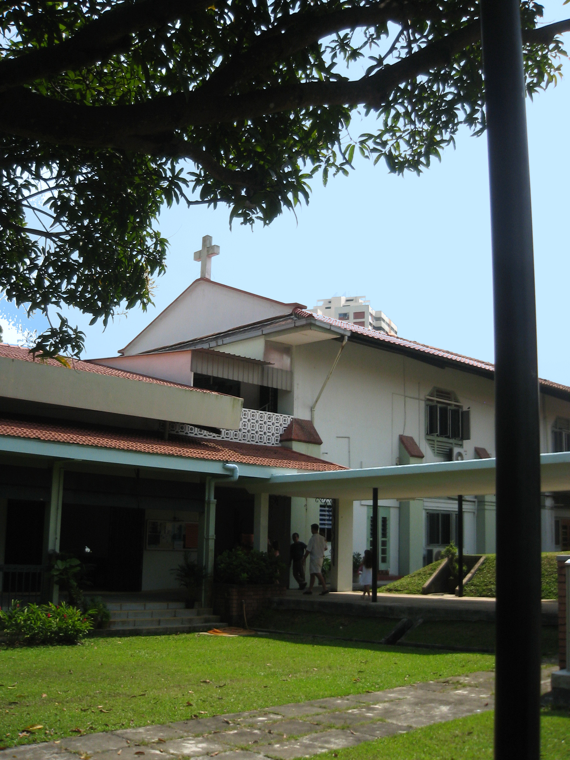 Good Shepherd Chapel at Marymount Convent in Singapore